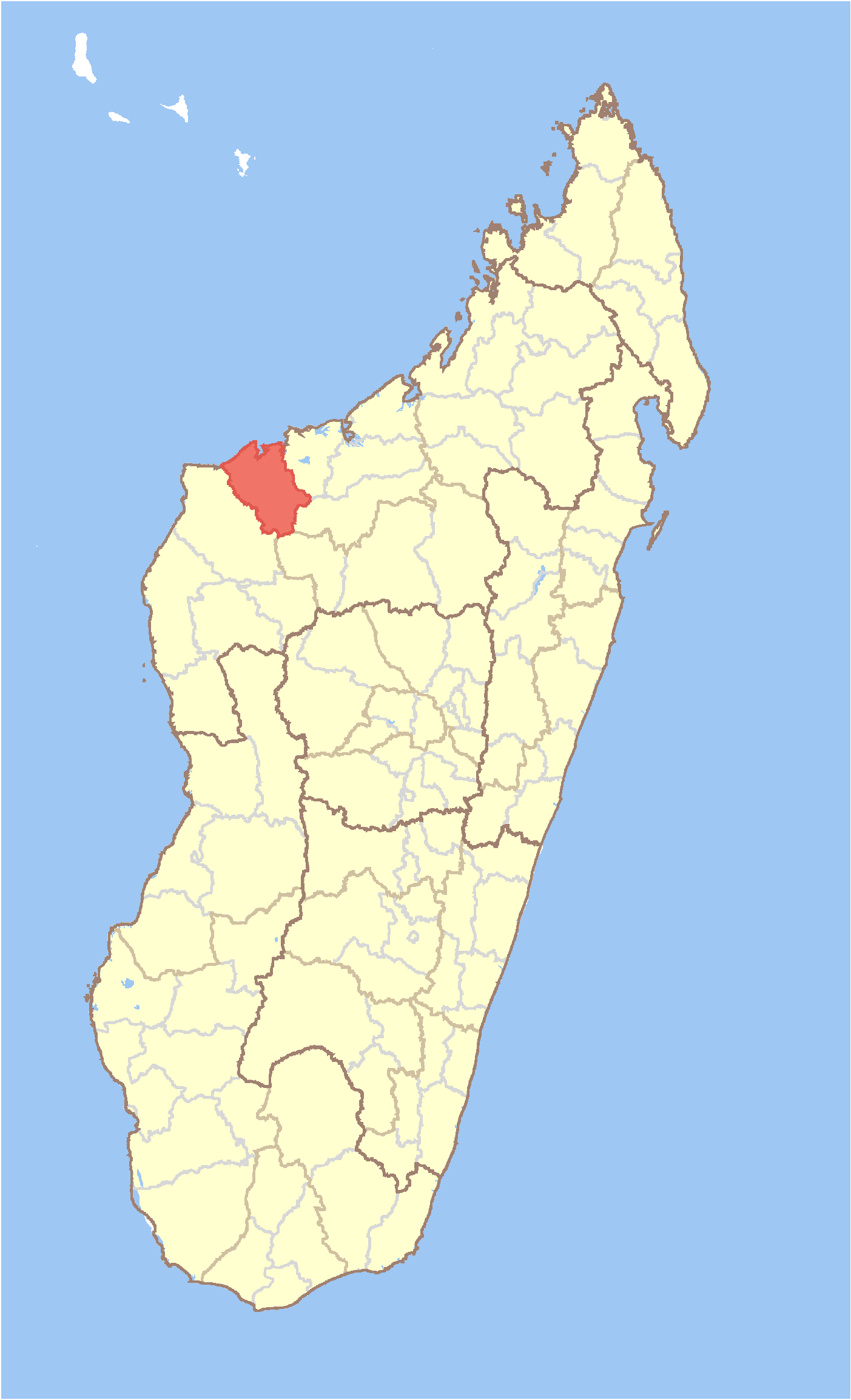 Map of Madagascar with Soalala District highlighted